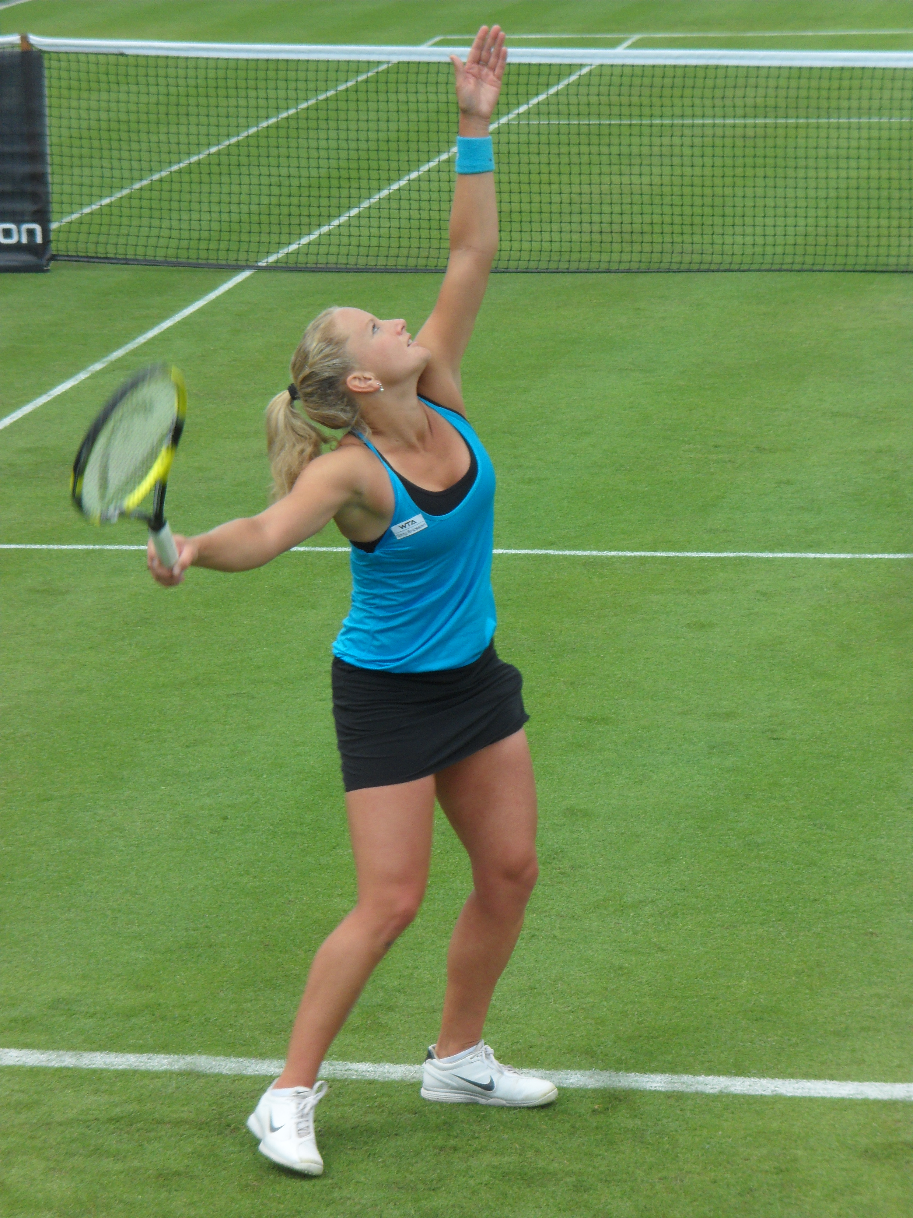 Emily Webley-Smith serving against Magdaléna Rybáriková in the first round of the Aegon Classic on 6th June 2011.